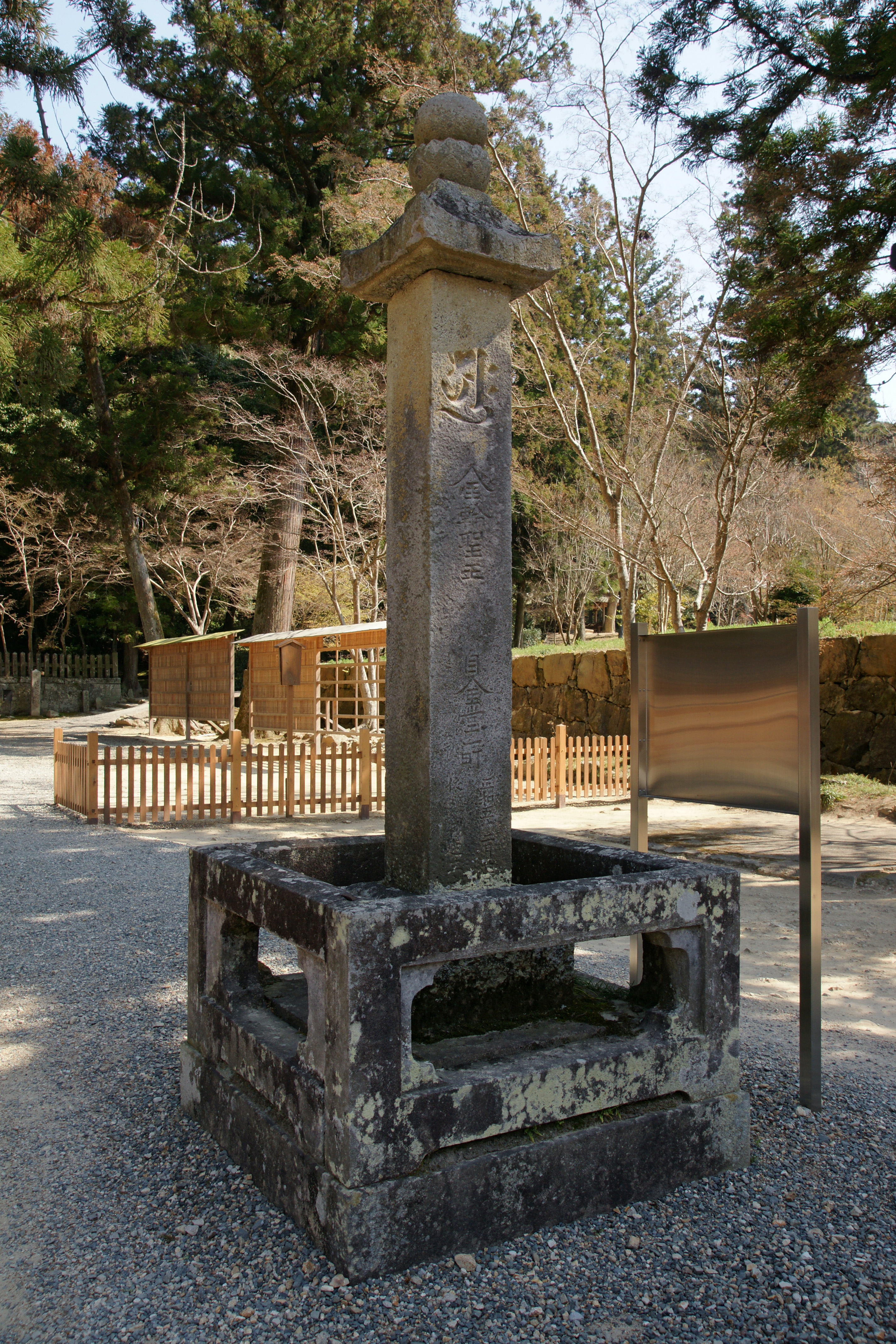 Ichijo-ji in Kasai, Hyogo prefecture, Japan